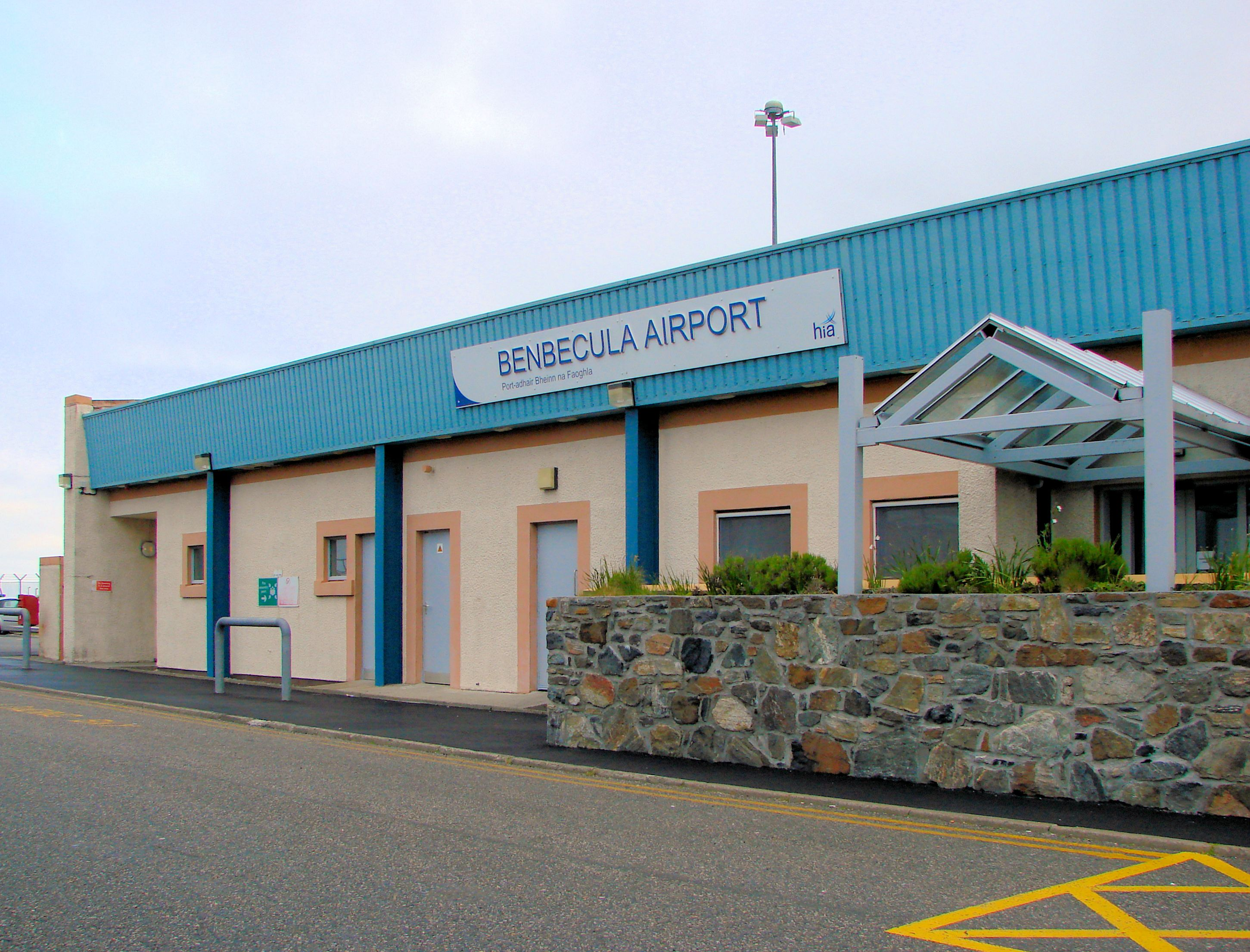 Main passenger building of Benbecula airport in Balivanich